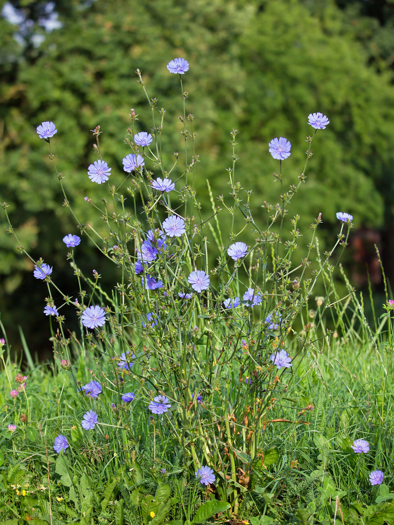 Habitus of flowering Common Chicory (Cichorium intybus).